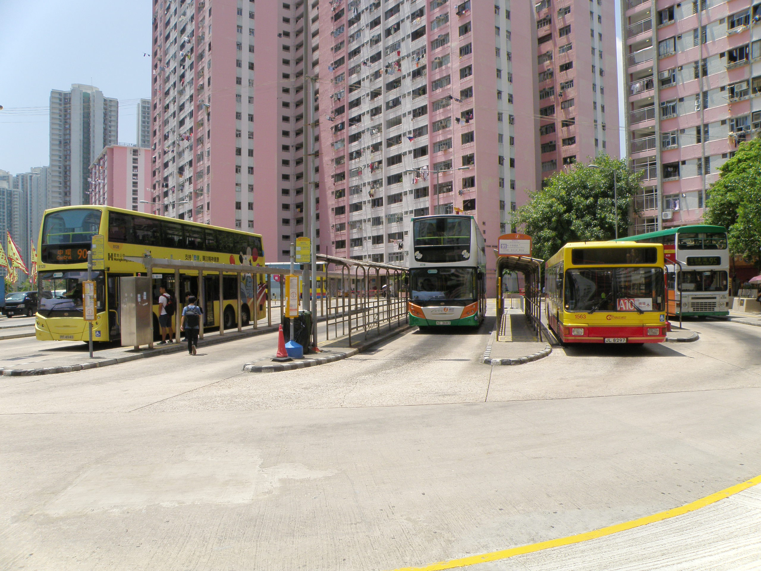 Ap Lei Chau Estate Bus Terminus in Ap Lei Chau, Hong Kong.